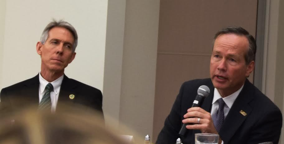 With John L. Crain (left), F. King Alexander responds to questions about funding for Louisiana's public universities.